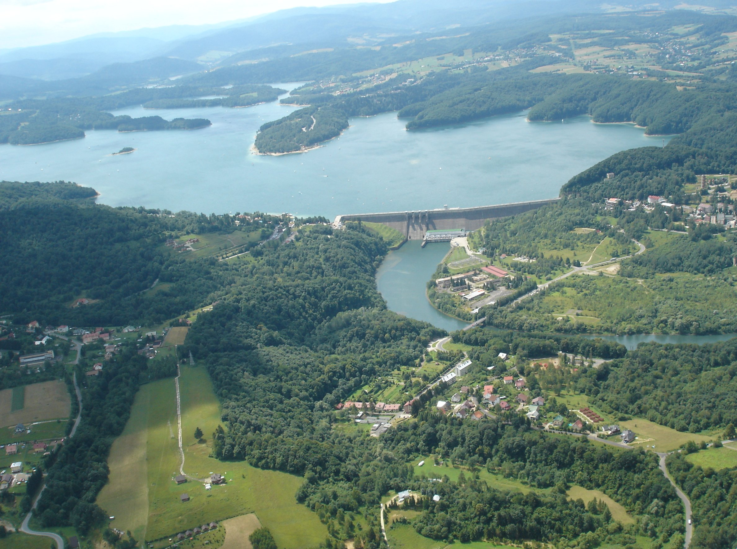 Solina Dam